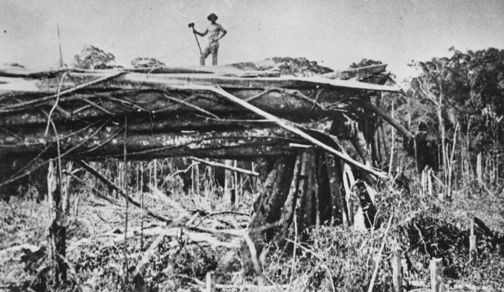 Clearing timber on a block at Mount Tamborine, 1912 Script with photograph reads: Porscard sent from Upper Coomera 30 December 1912. 'This si part of the clearing on your block, and am only waiting for the dry weather to burn off. There were not many trees like this on the piece.' (Description supplied with photograph.).